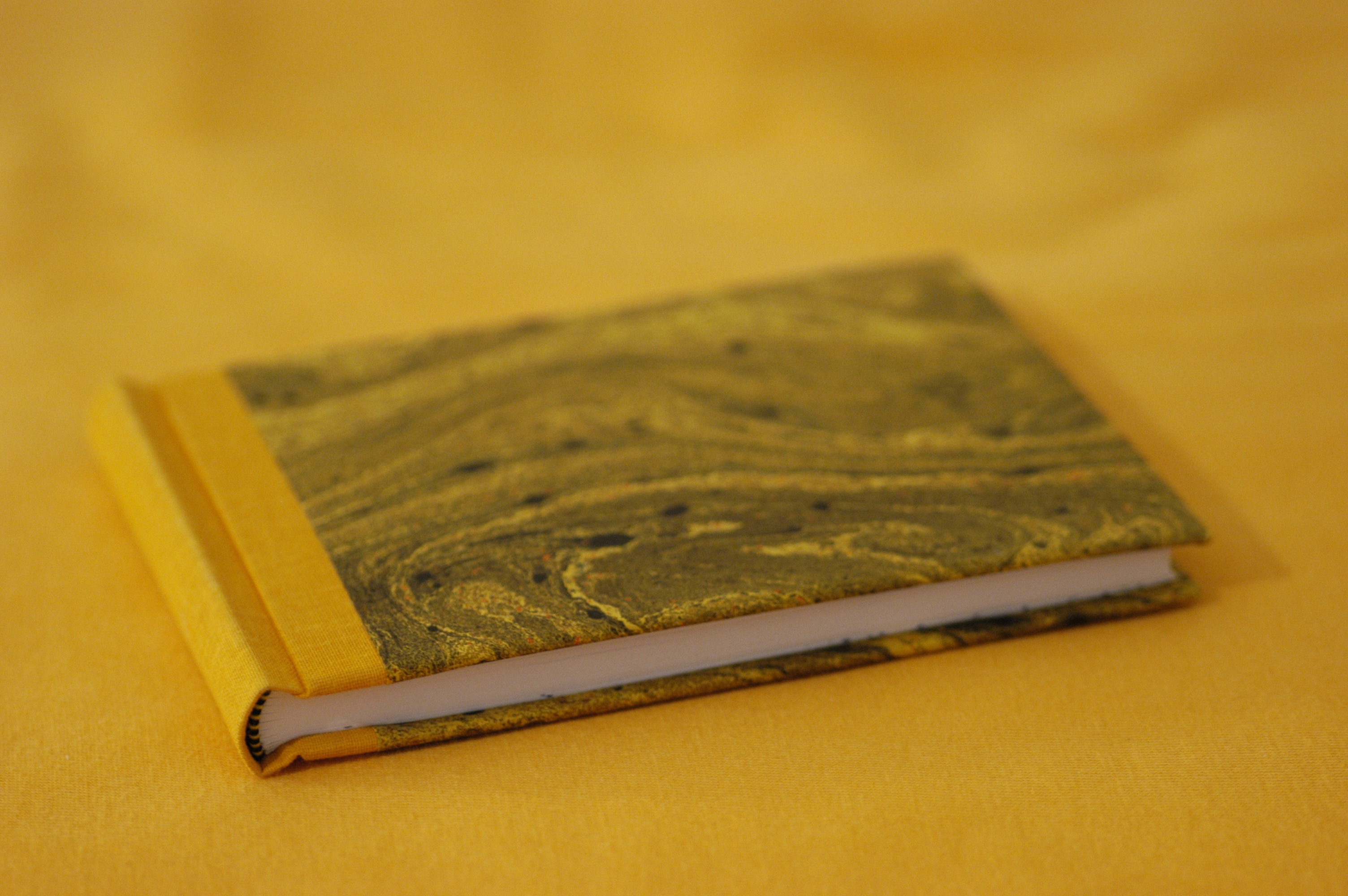 Self bound book